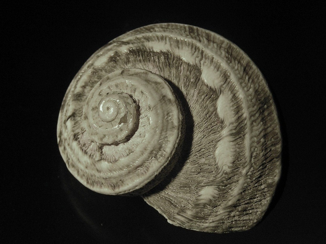 Lunella (Ninella) torquata (Gmelin, 1791) , a turbid snail from the family Turbinidae; Australia